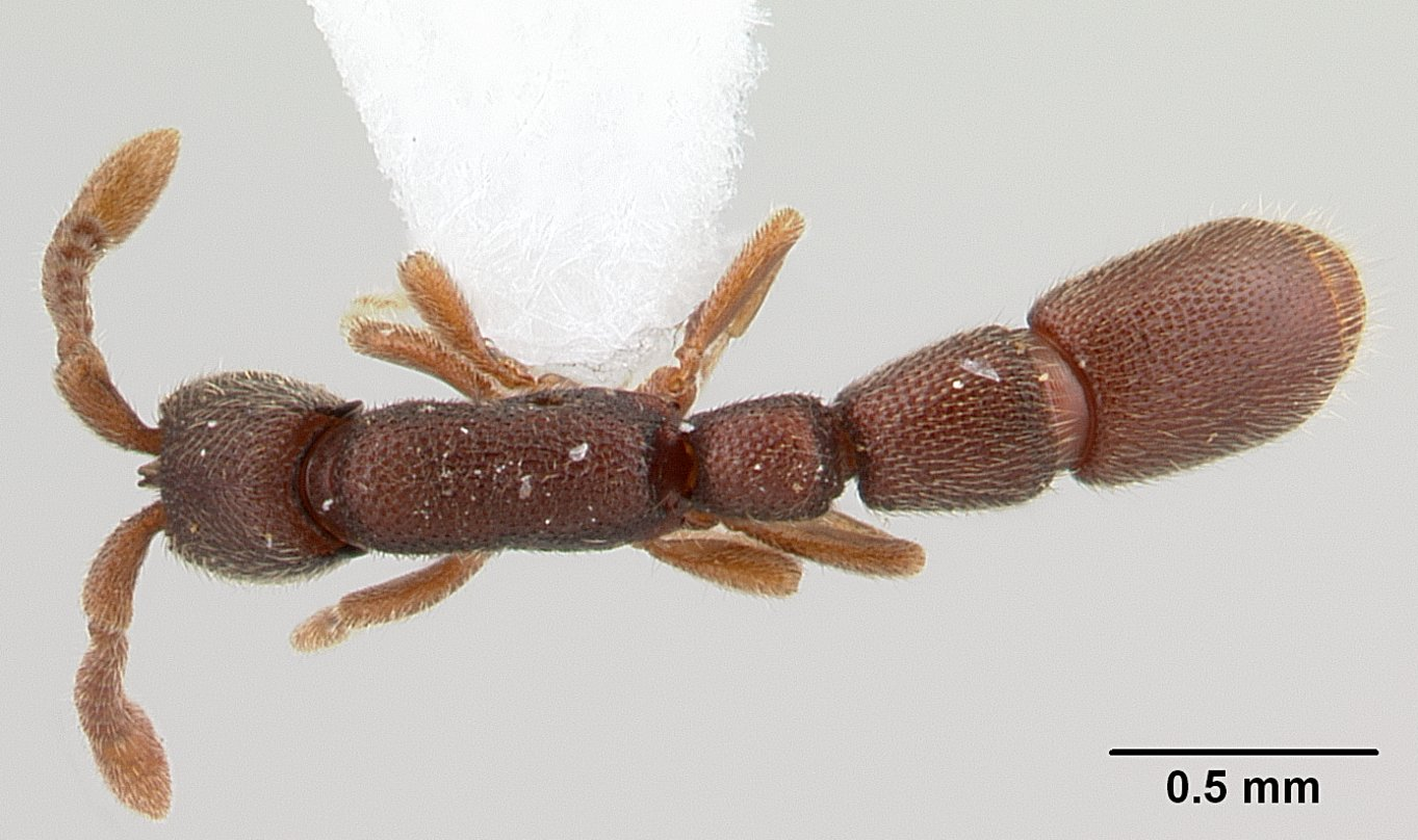 Dorsal view of ant Cerapachys typhlus specimen casent0106214.